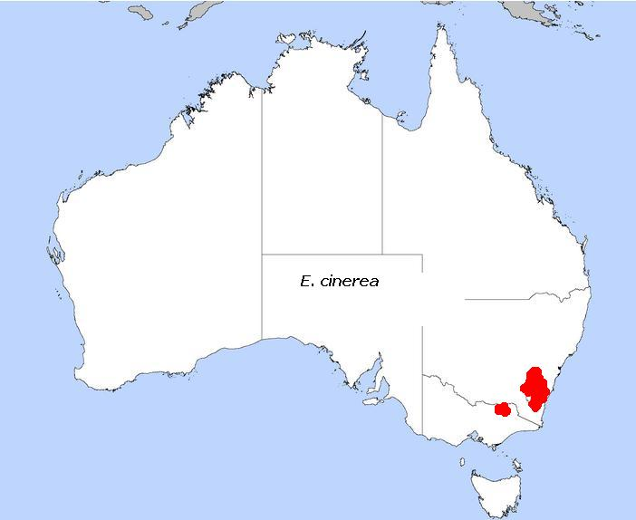 Range of Eucalyptus cinerea in Australia.